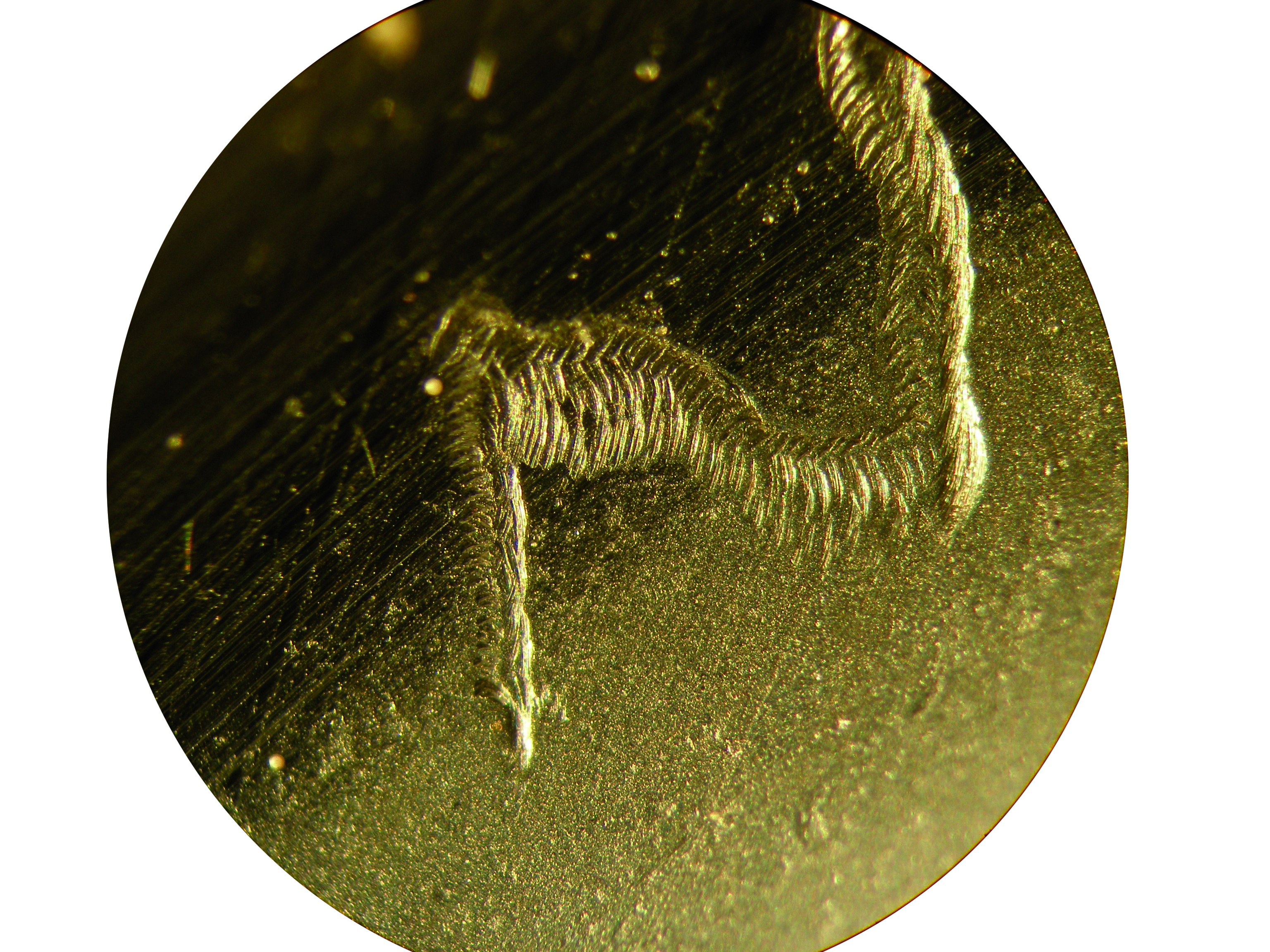 Modification of the friction surface. Defect begins to fade